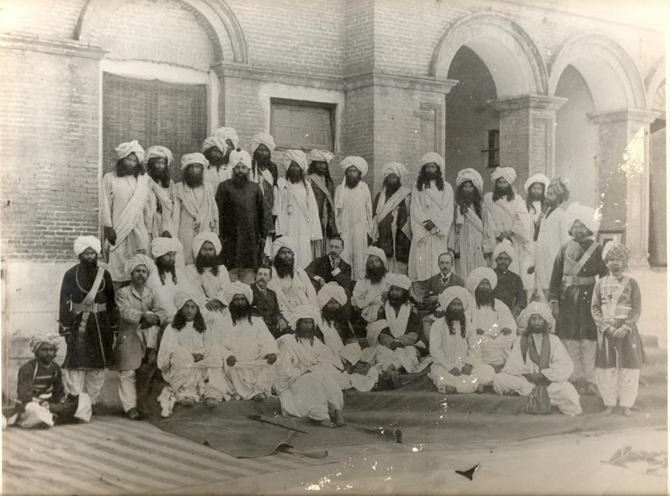 FARE WELL DURBAR, DERA GHAZI KHAN. On Retierment of Richard I.Bruce, C.I.E., Commissioner of Derajat. The photograph was taken on the verandah of Mr Dames, B.C.S., The Deputy Commissioner of Derajat. April. 1896 — with Mr Dames, Richard I. Bruce, C.I.E, Nawab Sir Imam Baksh Khan Mazari K.C.I.E. and Nawab Sir Mohammed Bahram Khan Mazari K.B.E, K.C.I.E. in Dera Ghazi Khan, Punjab.